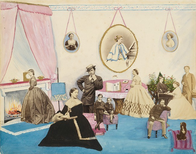 Collage of watercolour and albumen silver print (22.2 x 28.6 cm) from the Filmer Albmun (mid-1860s) compiled by Mary Georgina Filmer (1838-1903)